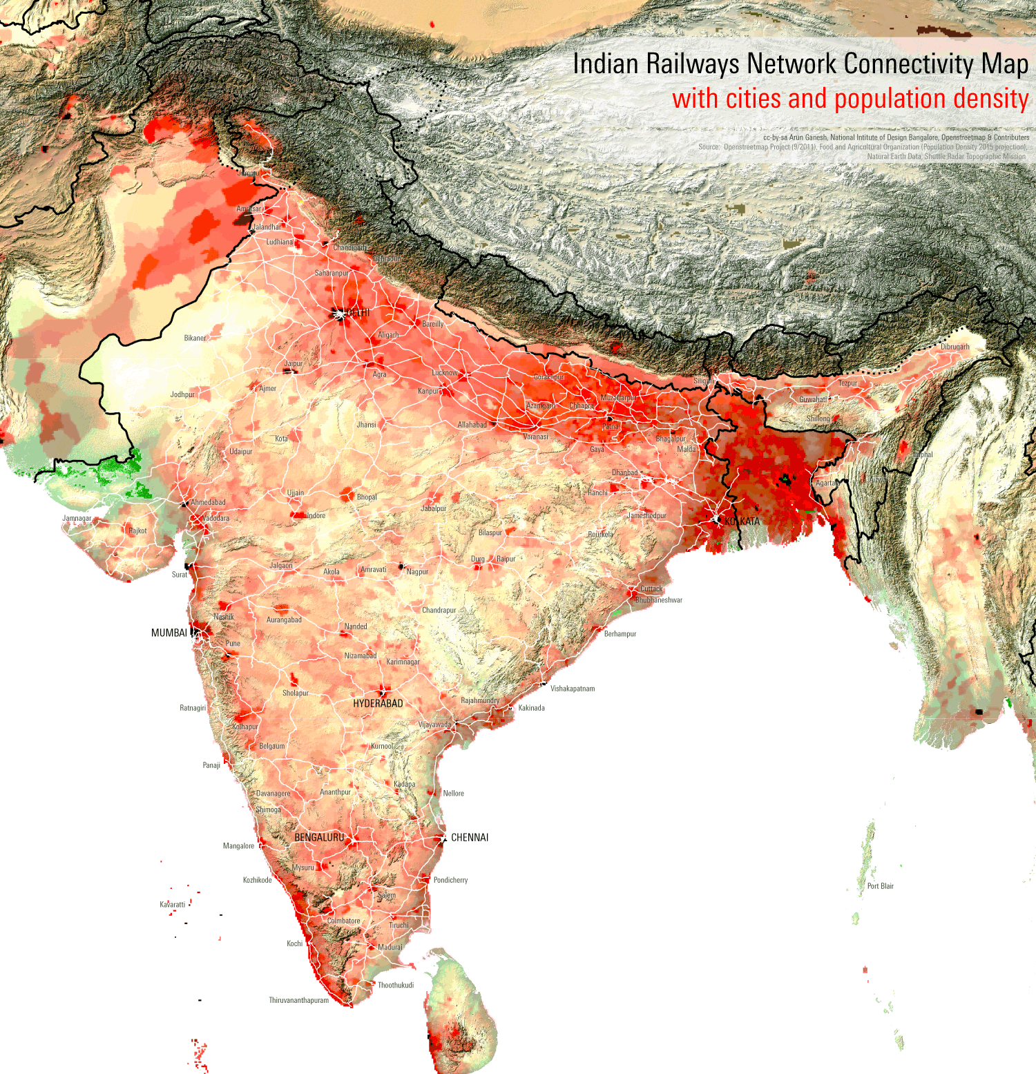 Railway network connectivity map of the populated regions of India. The Indian Railways is the world's fourth largest railway network spread over 64,000 kms and transport 30 million passengers a day.